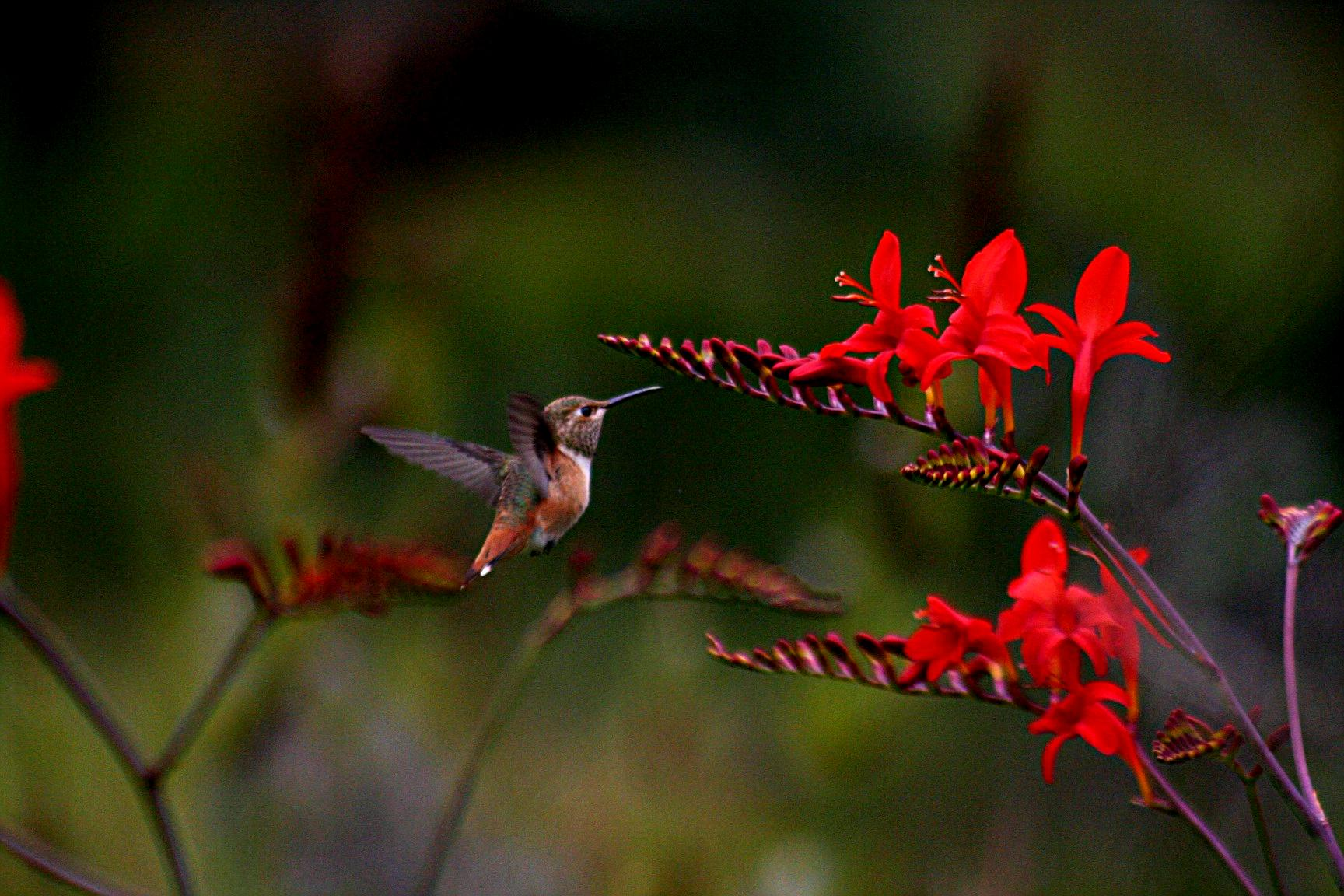 A hummingbird among Crocosmia. The image was taken in San Francisco